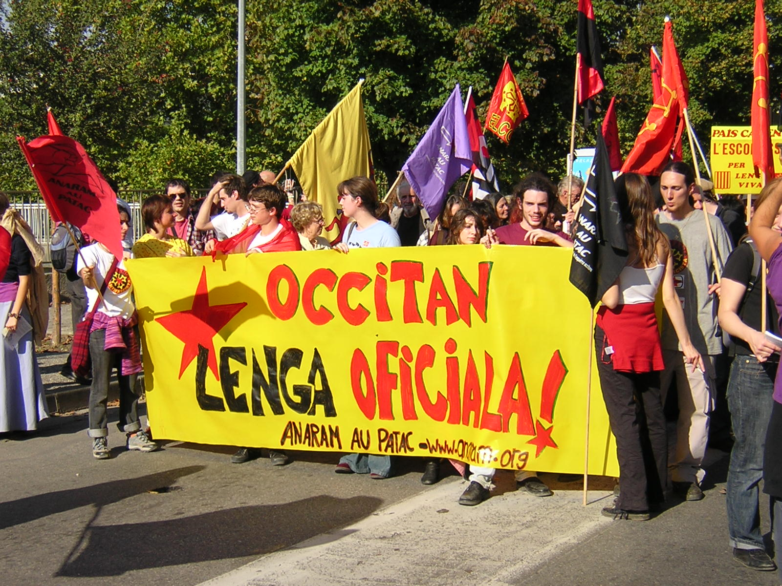 Demonstration in favour of official status for Occitan language, Carcassonne.